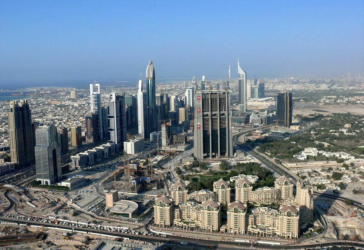 This is a photo showing the skyline along Sheikh Zayed Road in Dubai, United Arab Emirates on 27 November 2007. This photo was taken from the 76th floor of the Burj Dubai.